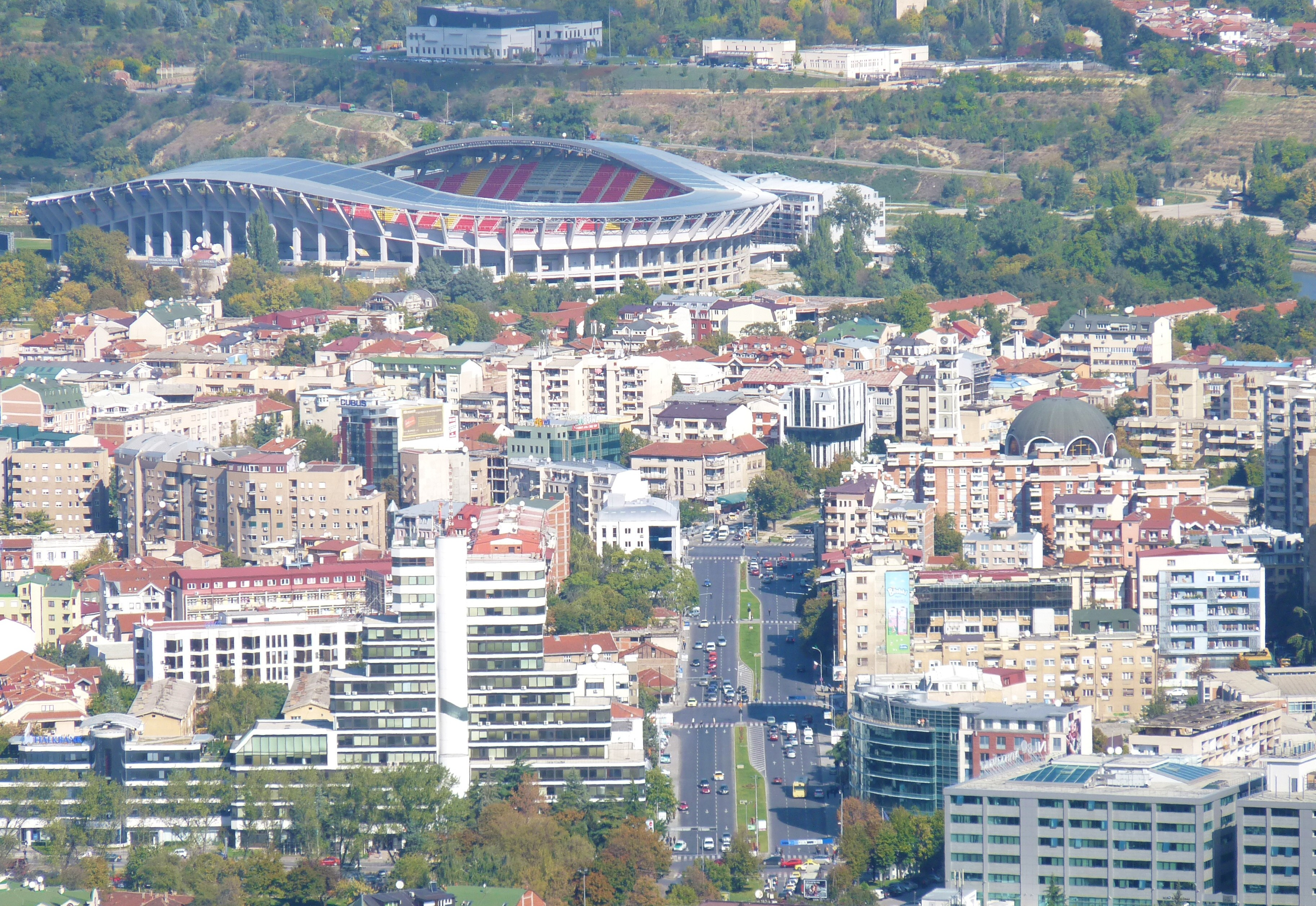 Skopje view of Kliment Ohridski Boulevard and Philip II Stadium